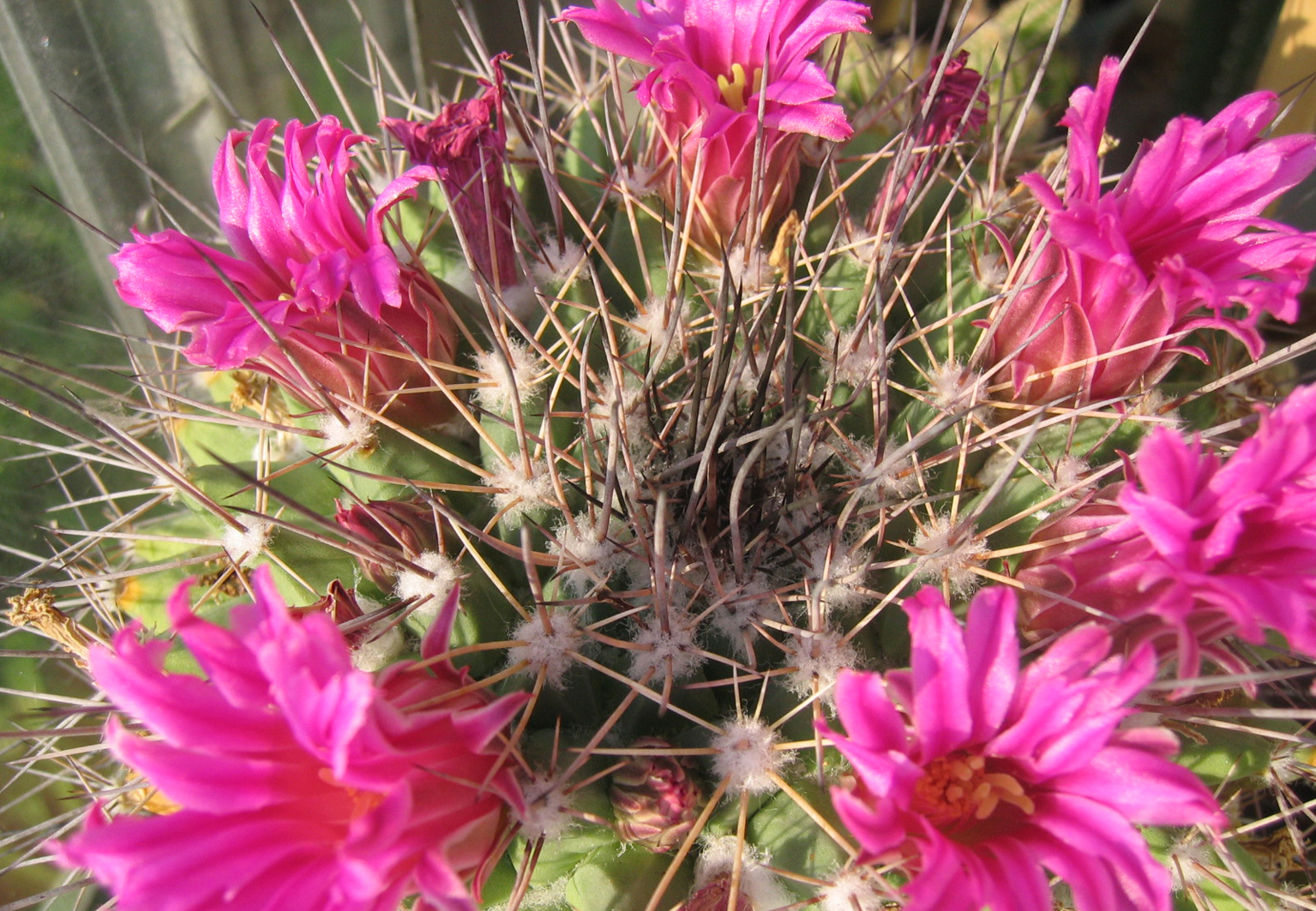 Mammillaria dixanthocentron Foto: Rolf Thum, Hockenheim Foto taken in March 2006; own collection of cactus